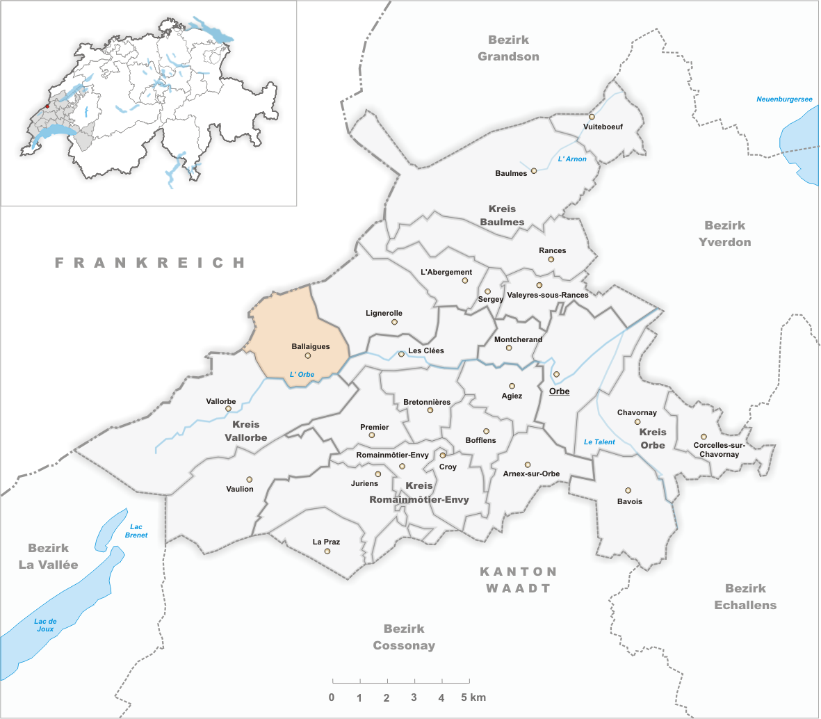 Municipality Ballaigues